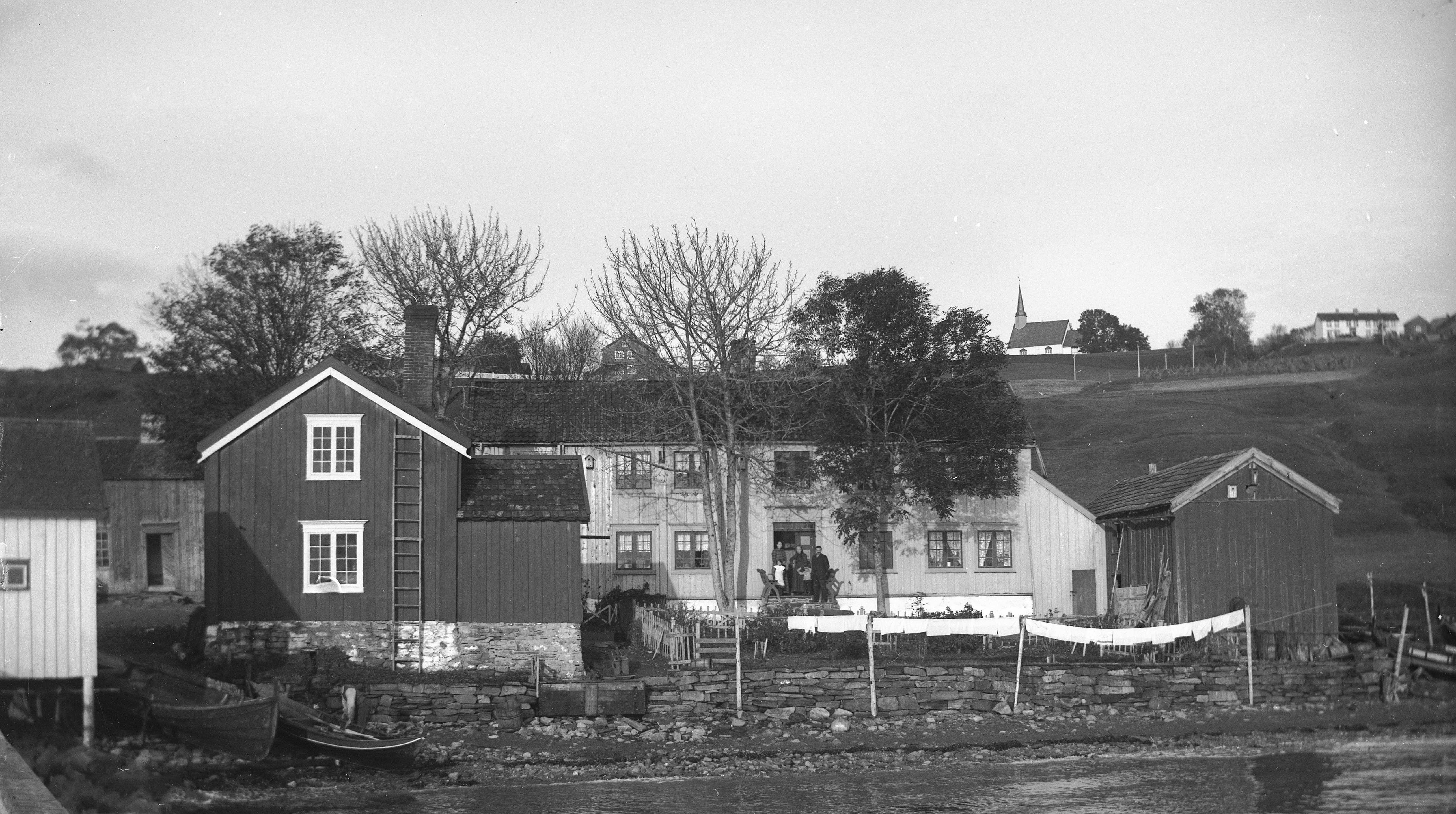 Kroa in Leksvik as seen in 1900.